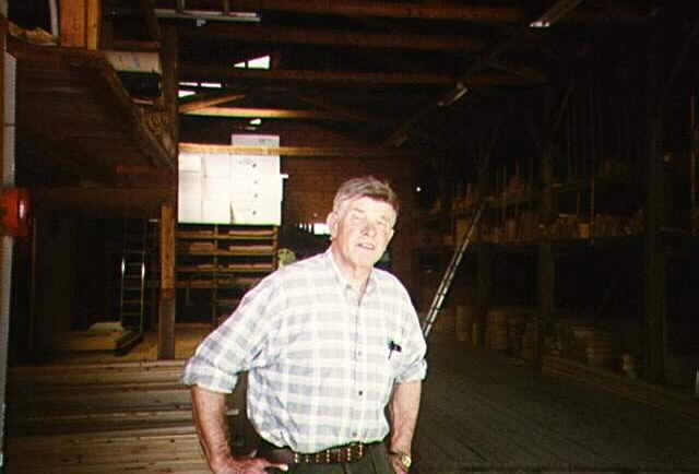 Photo:Einarspetz